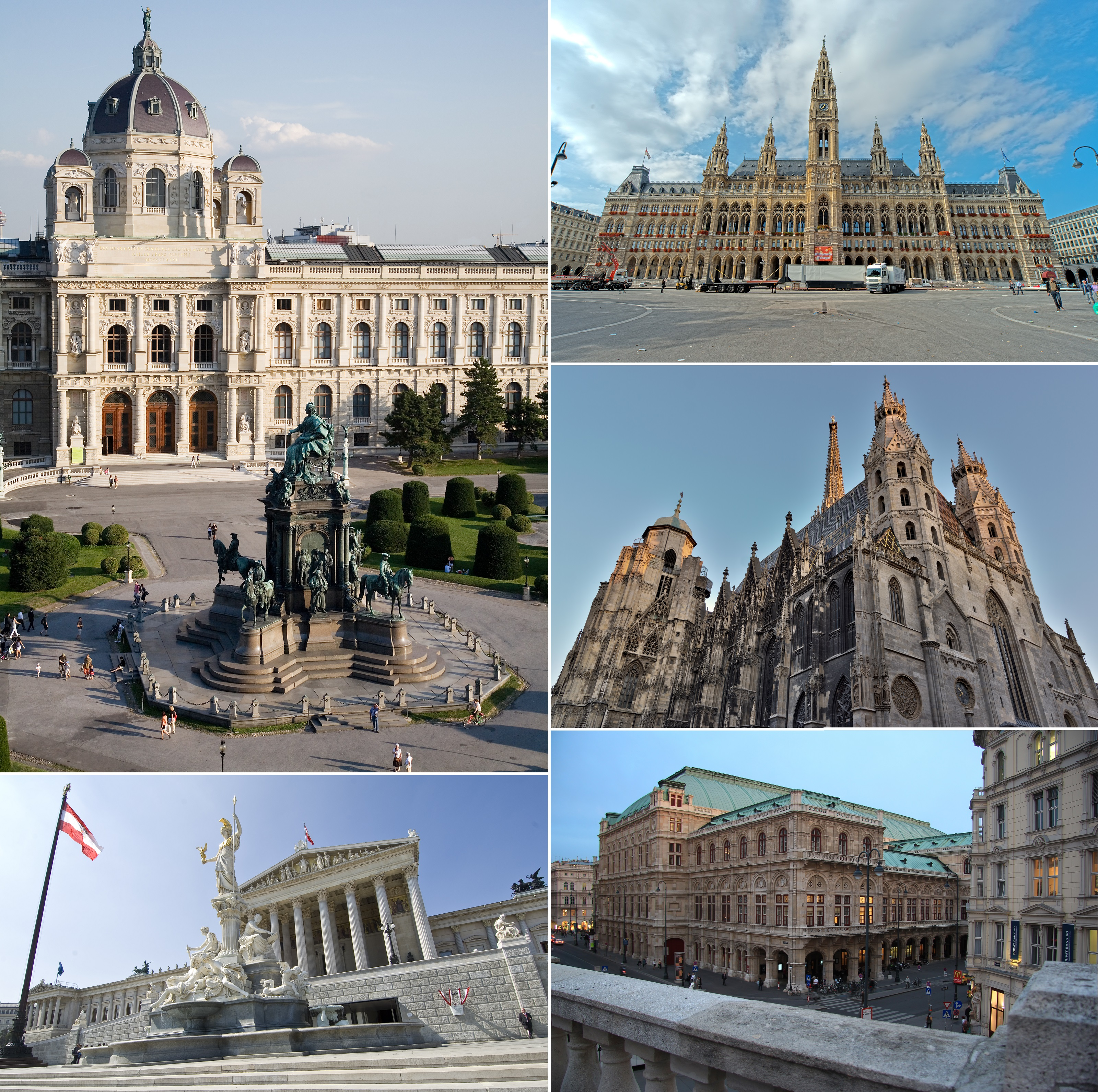 From top, left to right: Kunsthistorisches Museum, City Hall, St. Stephen's Cathedral, Vienna State Opera, and Austrian Parliament Building